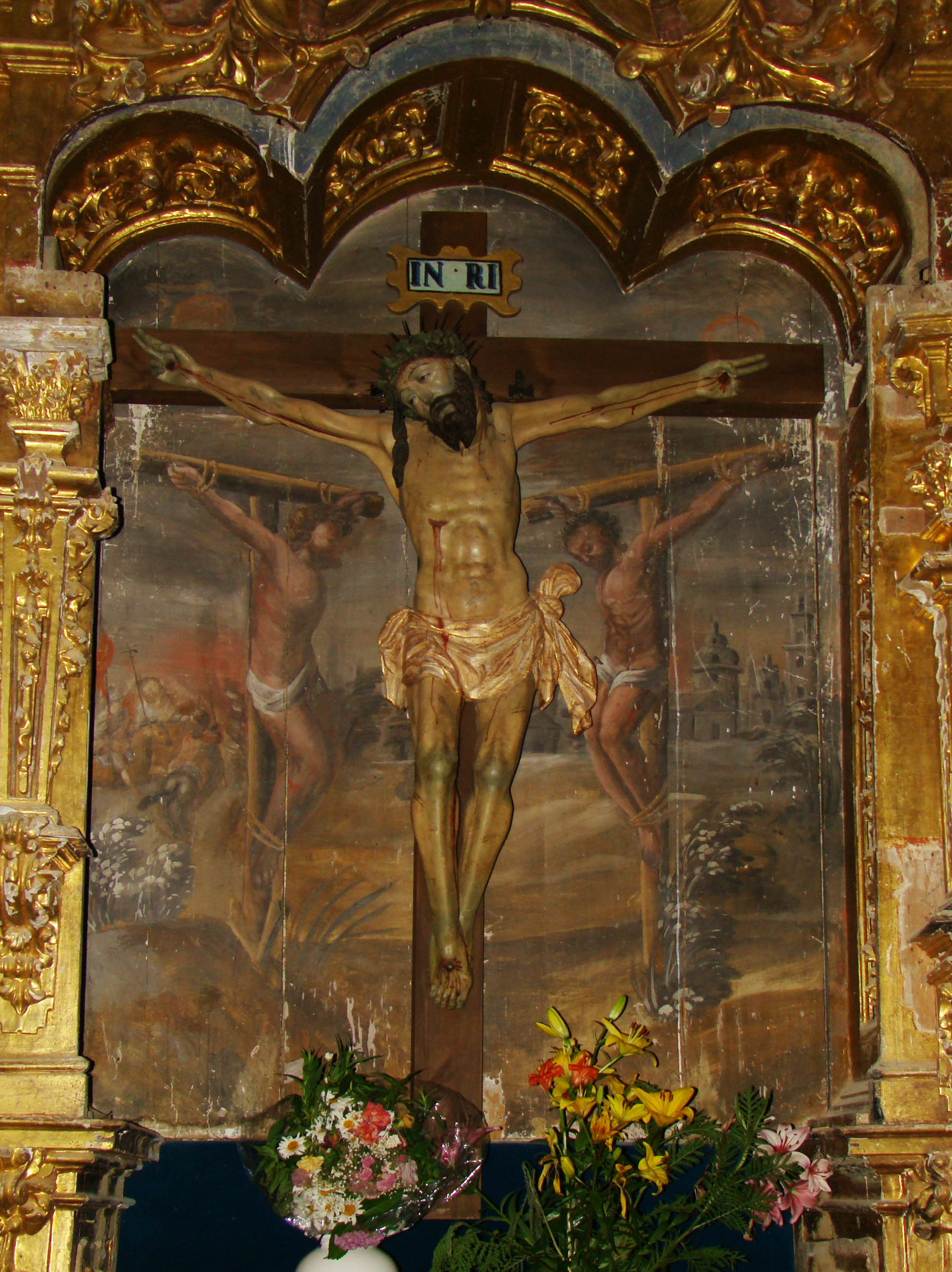 Barroque altarpiece of the Christ in the hermitage of Castilviejo (Medina de Rioseco in Valladolid, Spain). Sculpture of the 16th century.